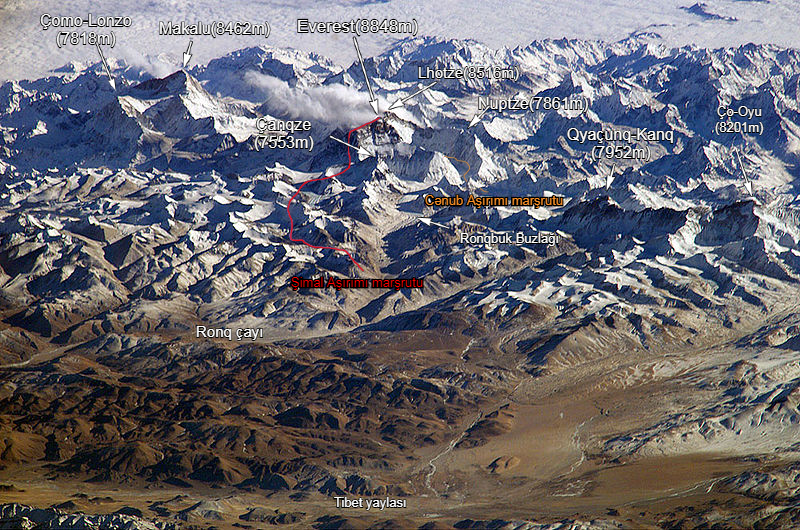 The Himalayan mountain range with Mount Everest as seen from the International Space Station looking south-south-east over the Tibetan Plateau. Four of the world's fourteen eight-thousanders, mountains higher than 8000 metres, can be seen, Makalu (8462 m), Everest (8850 m), Lhotse (8516 m) and Cho Oyu (8201 m). The South Col Route is Mount Everest's most often used climbing route.